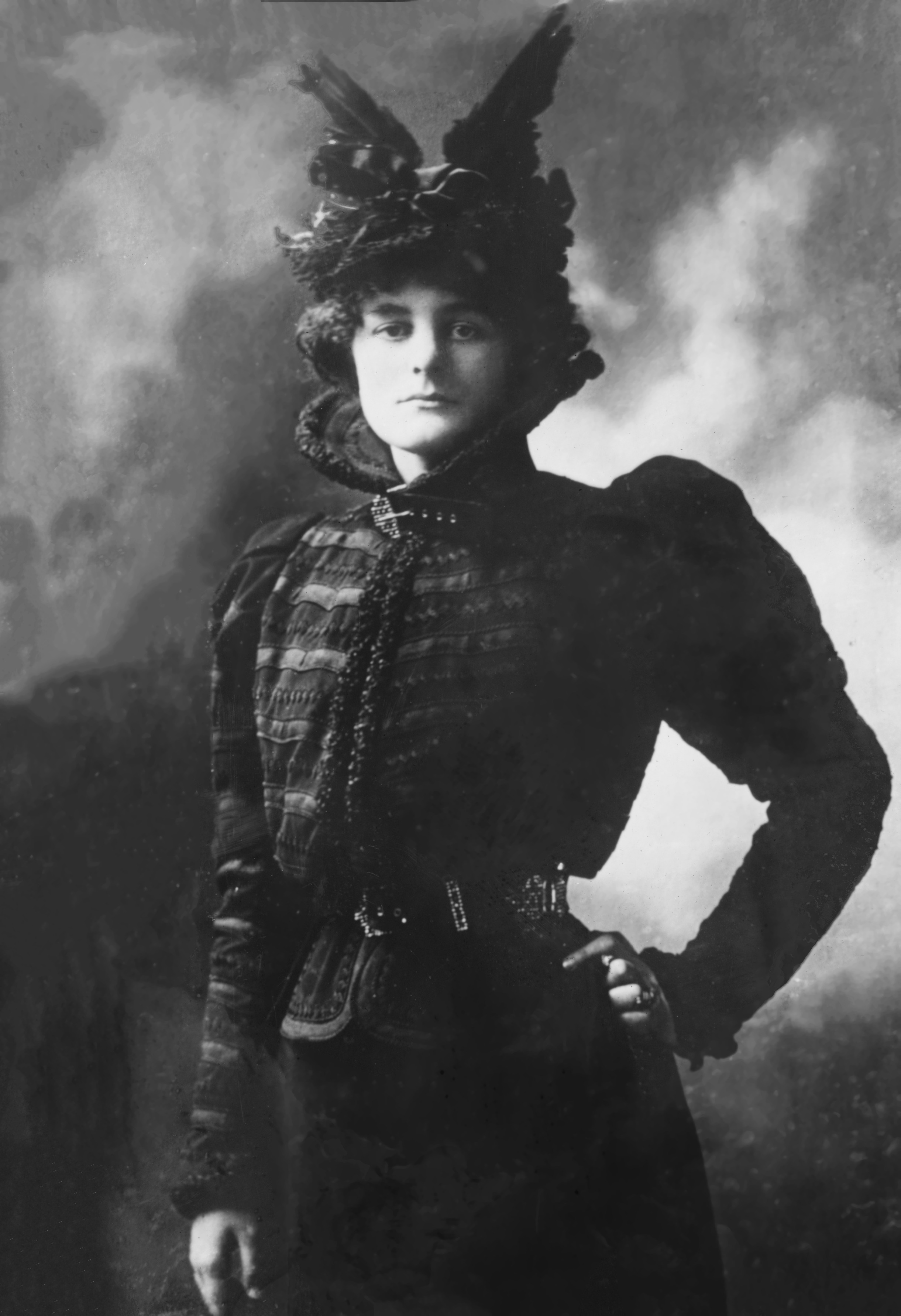 Maude Gonne McBride, three-quarters standing